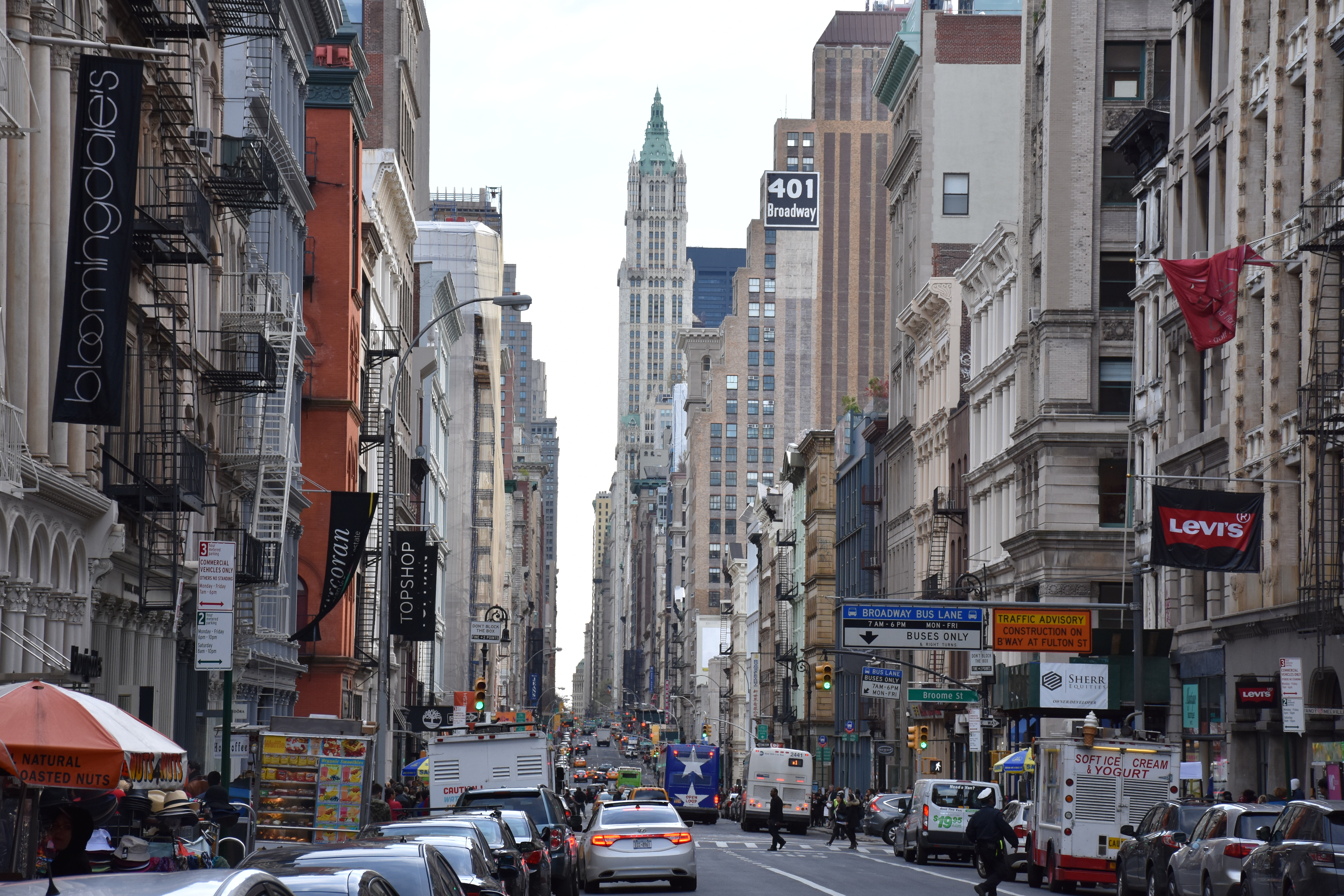 Looking south on Broadway in Manhattan from SoHo